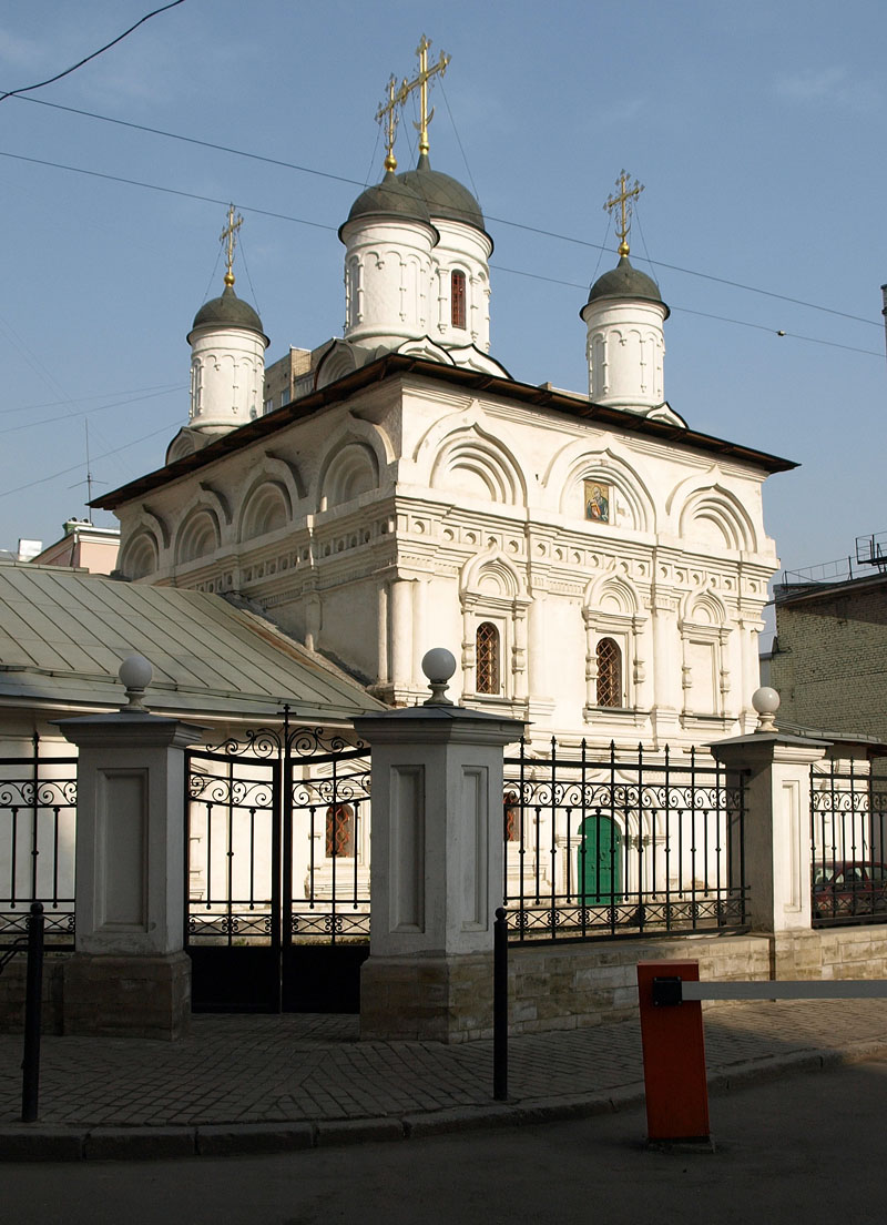 Church of Evangelist John. 1652-1665. Moscow, Bogoslovsky Lane (near Tverskoy Boulevard